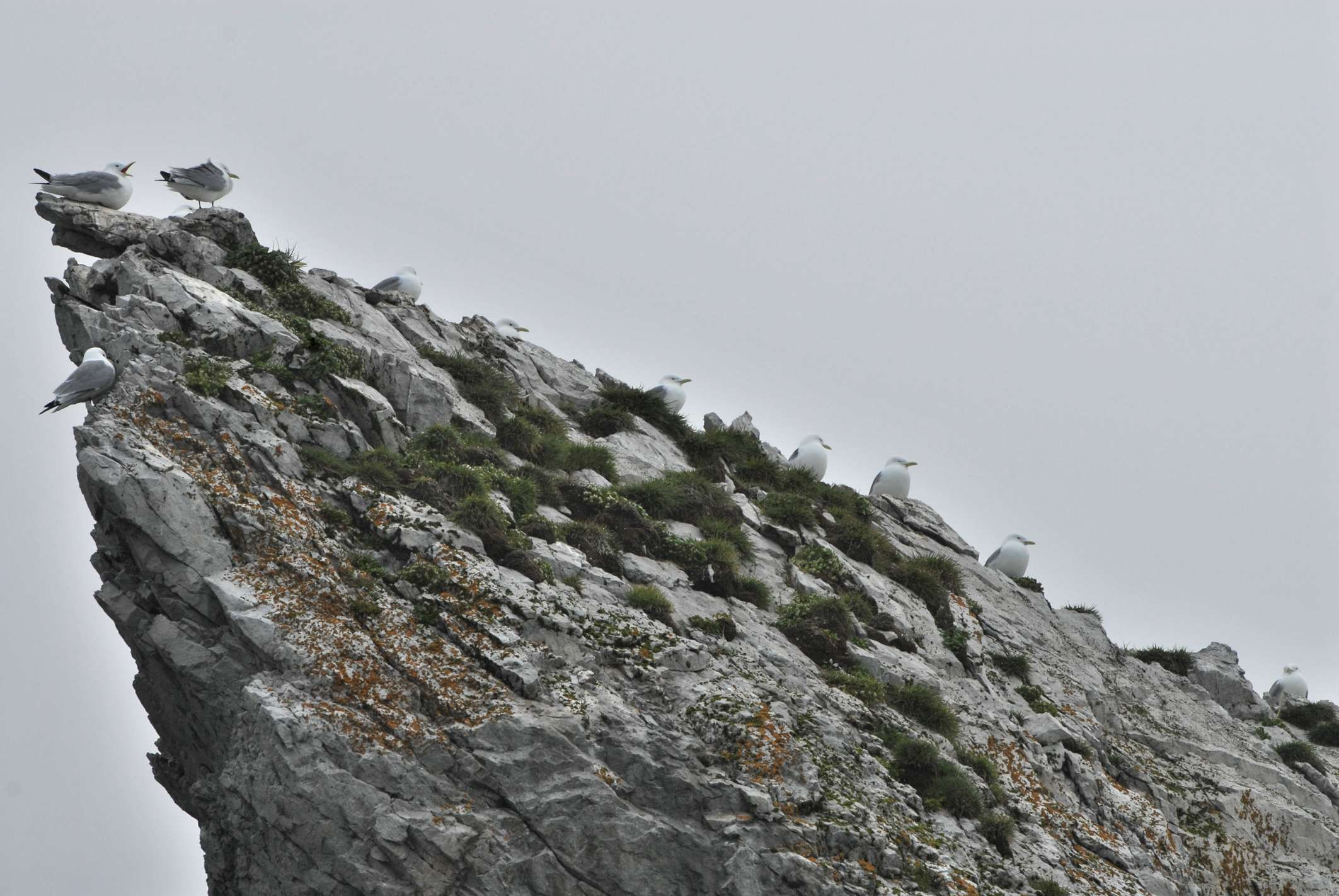 Cape Waring (southeast tip of Wrangel Island, Chukchi Sea, Russia; 71°14‘N, 177°27’W): Bird rock with Kittiwakes